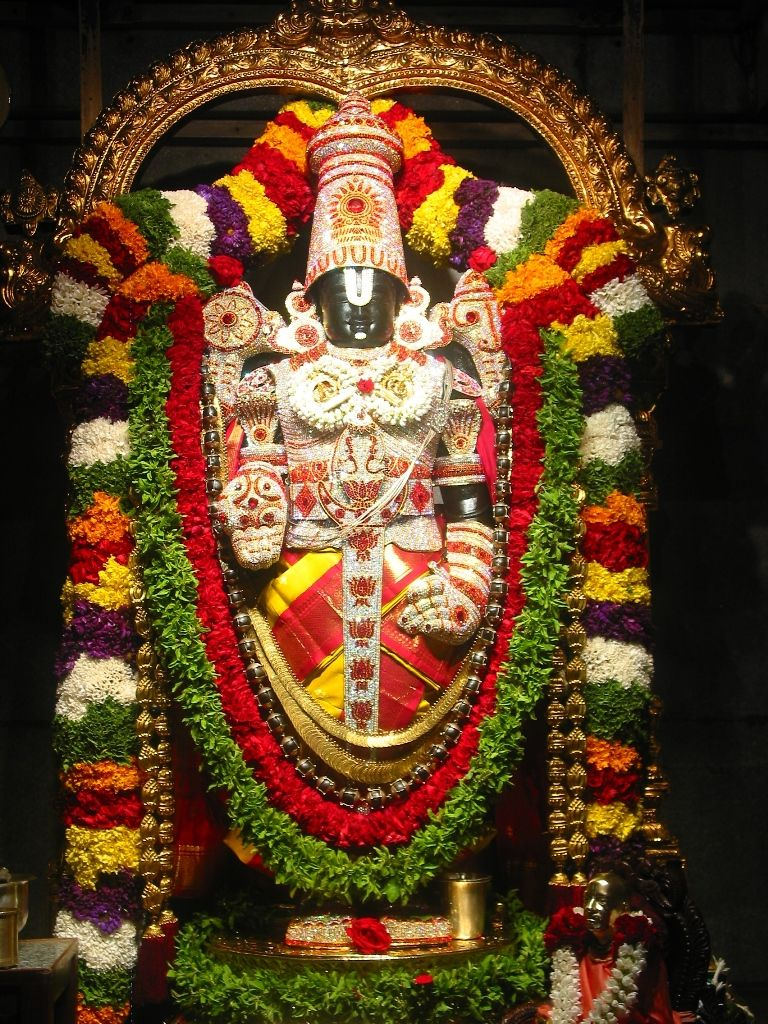 Malekallu Tirupathi-balaji, Arsikere